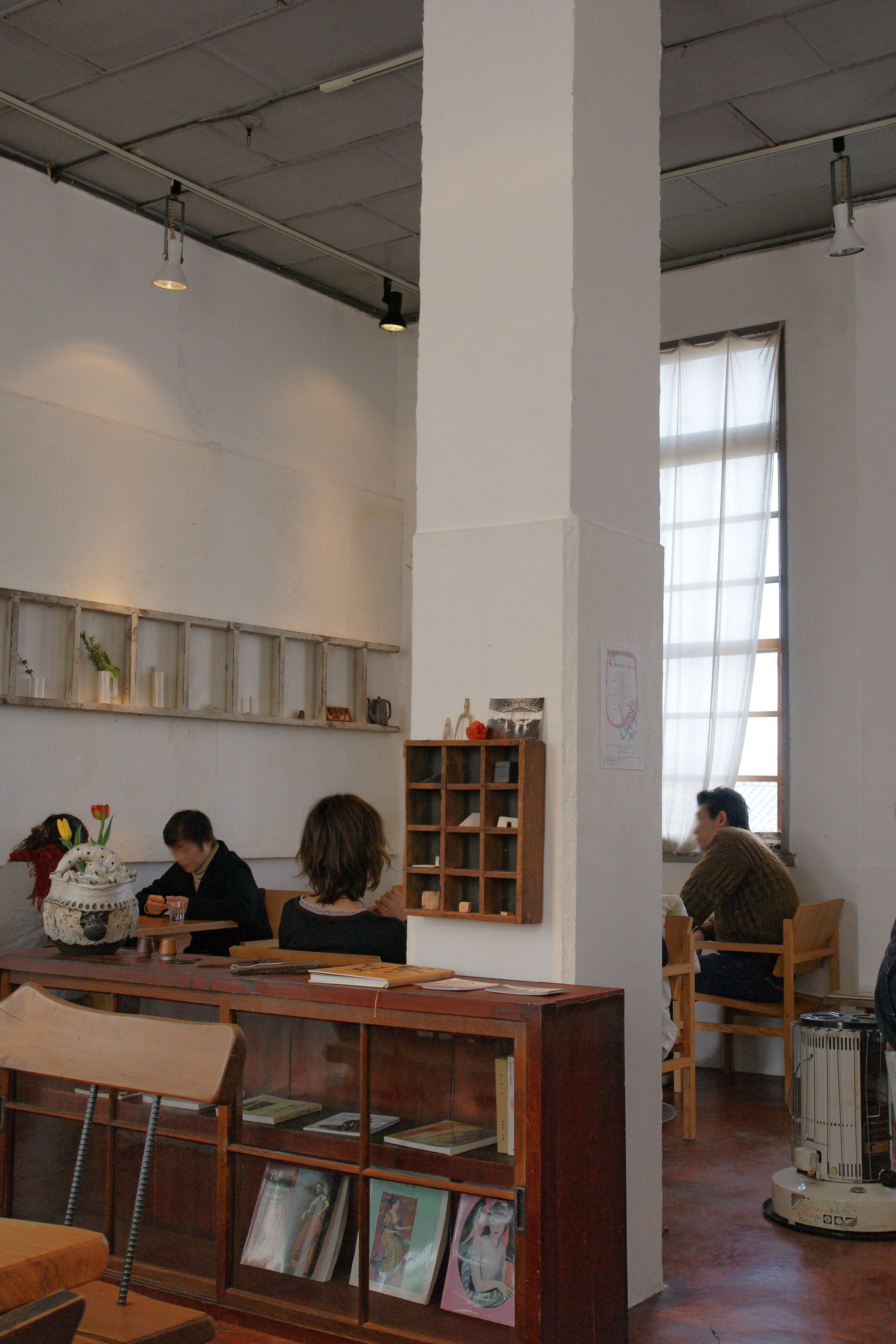 Old Nishimotogumi headquarters building, Wakayama, Wakayama prefecture, Japan